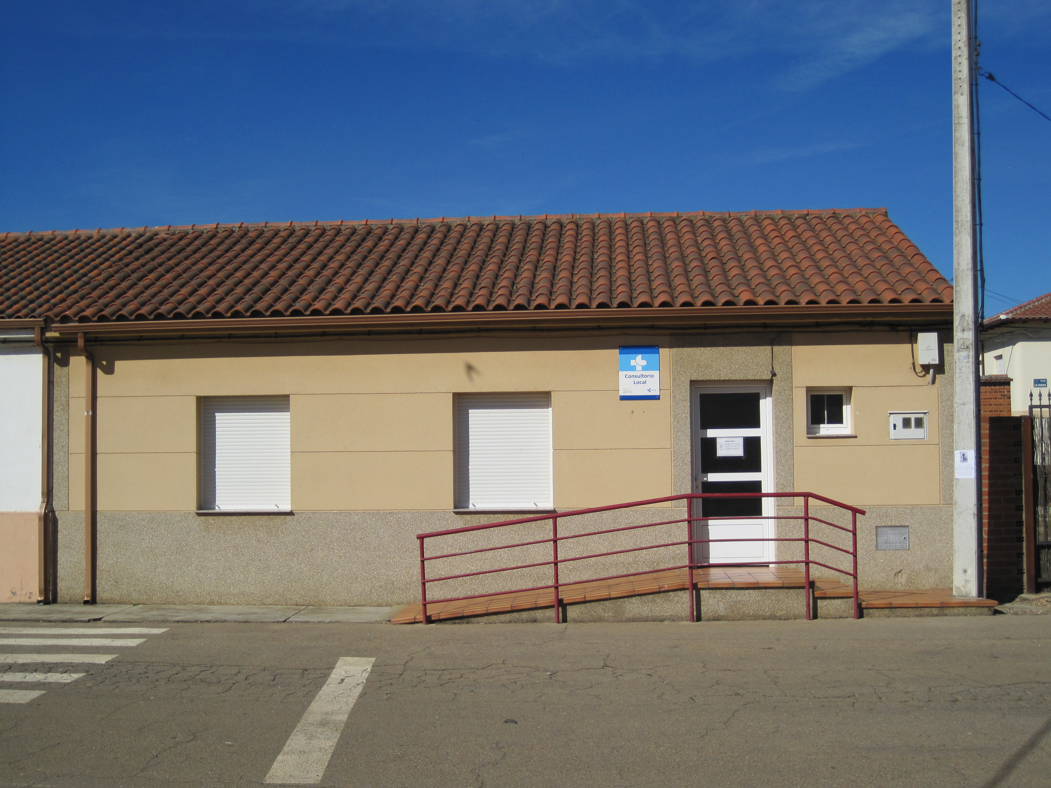 Imagen tomada en Bercianos del Páramo (León).